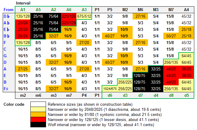 Frequency ratios of the 144 intervals in the C-based 5-limit tuning system (asymmetric scale). The selected ratios are listed below. Bold font indicates just intervals. The values were accurately computed using Microsoft Excel. The image was produced using Microsoft Excel and captured with Microsoft Snipping Tool.